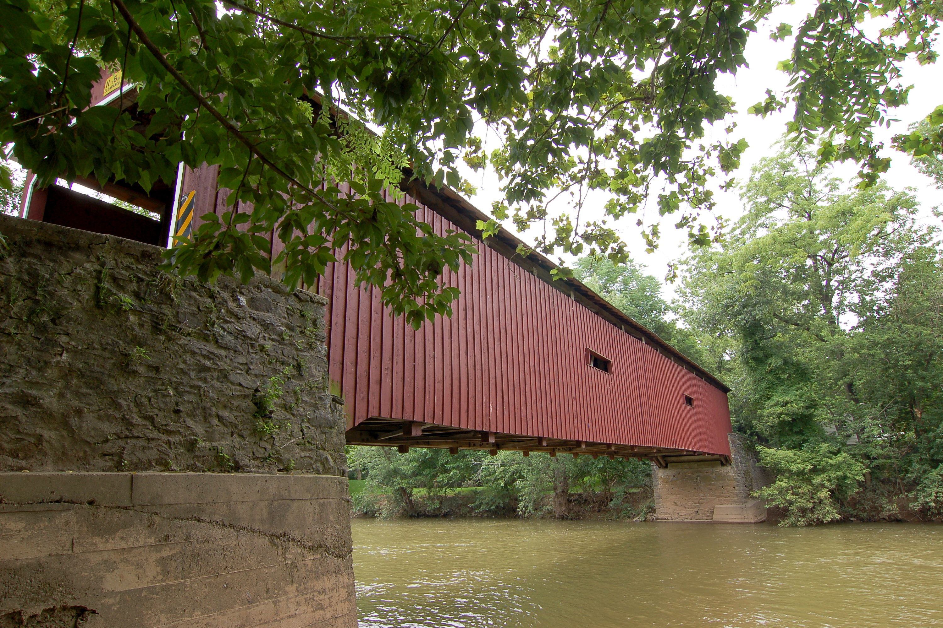 A side view photograph of the Pinetown Bushong's Mill Covered Bridge located in Lancaster County, Pennsylvania.